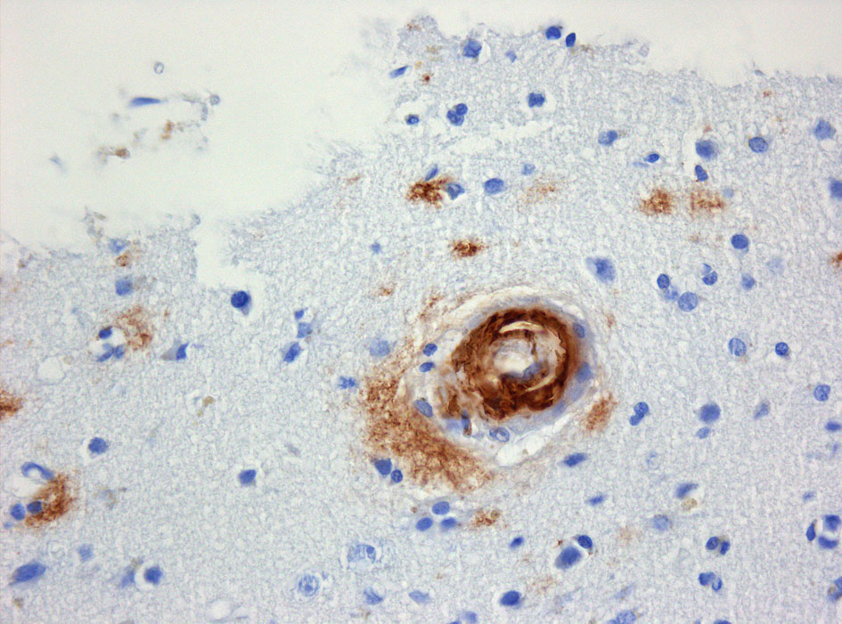 Immunohistochemistry for beta-Amyloid in beta-Amyloid assoiated angiitis (ABRA). Brain biopsy. Magnification 400x